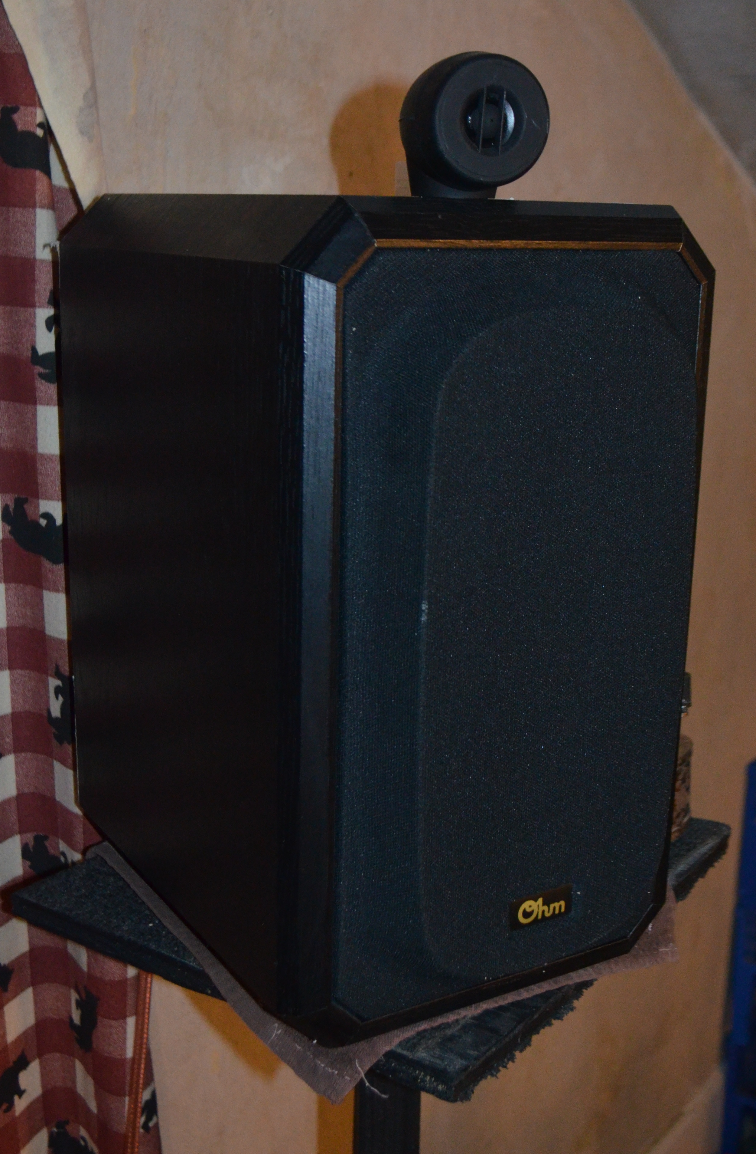 A CAM 16 by "Ohm" with swiveling "egg tweeter".